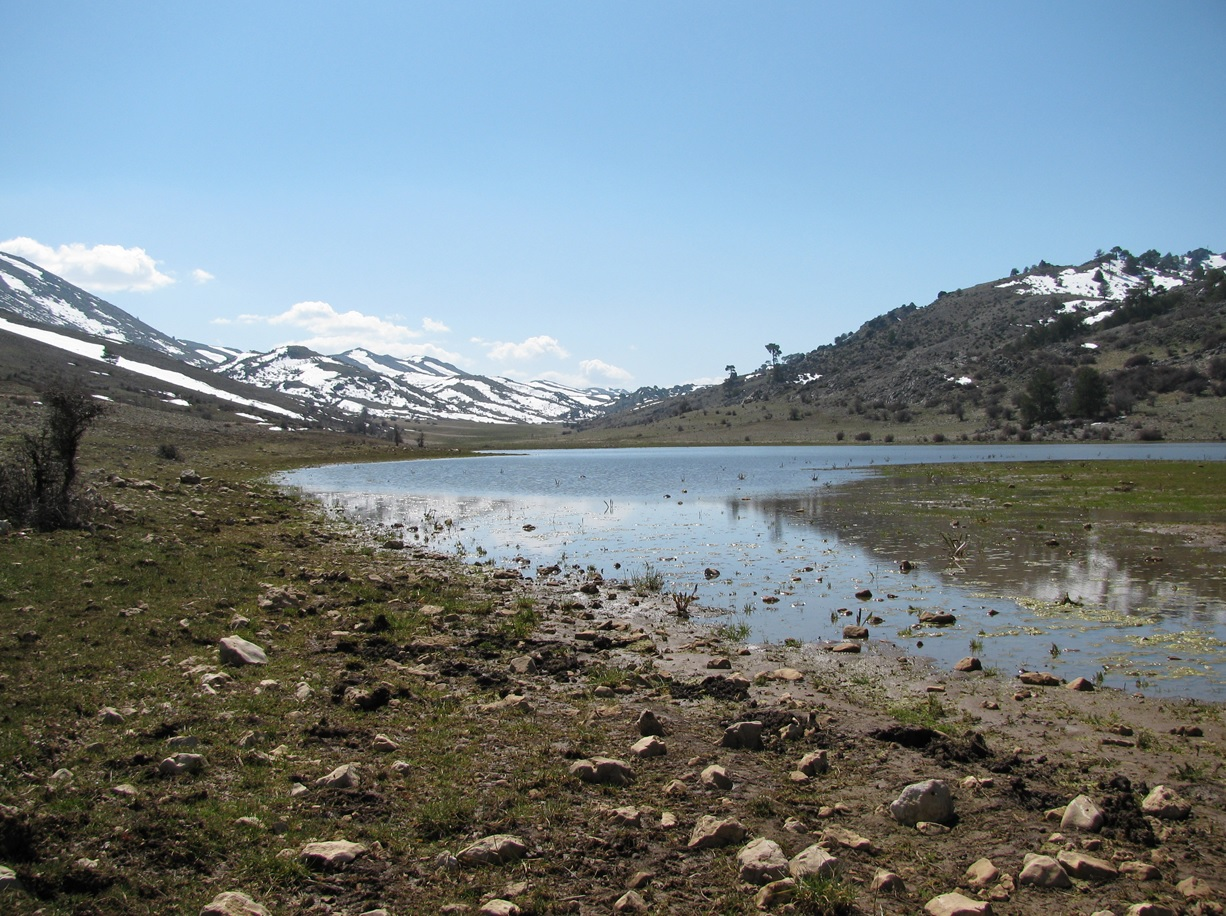 Cañada Laguna Cruz. Polje on the summit of Calar of Palmomas (Sierrra de Segura, Santiago-Pontones-Jaen)